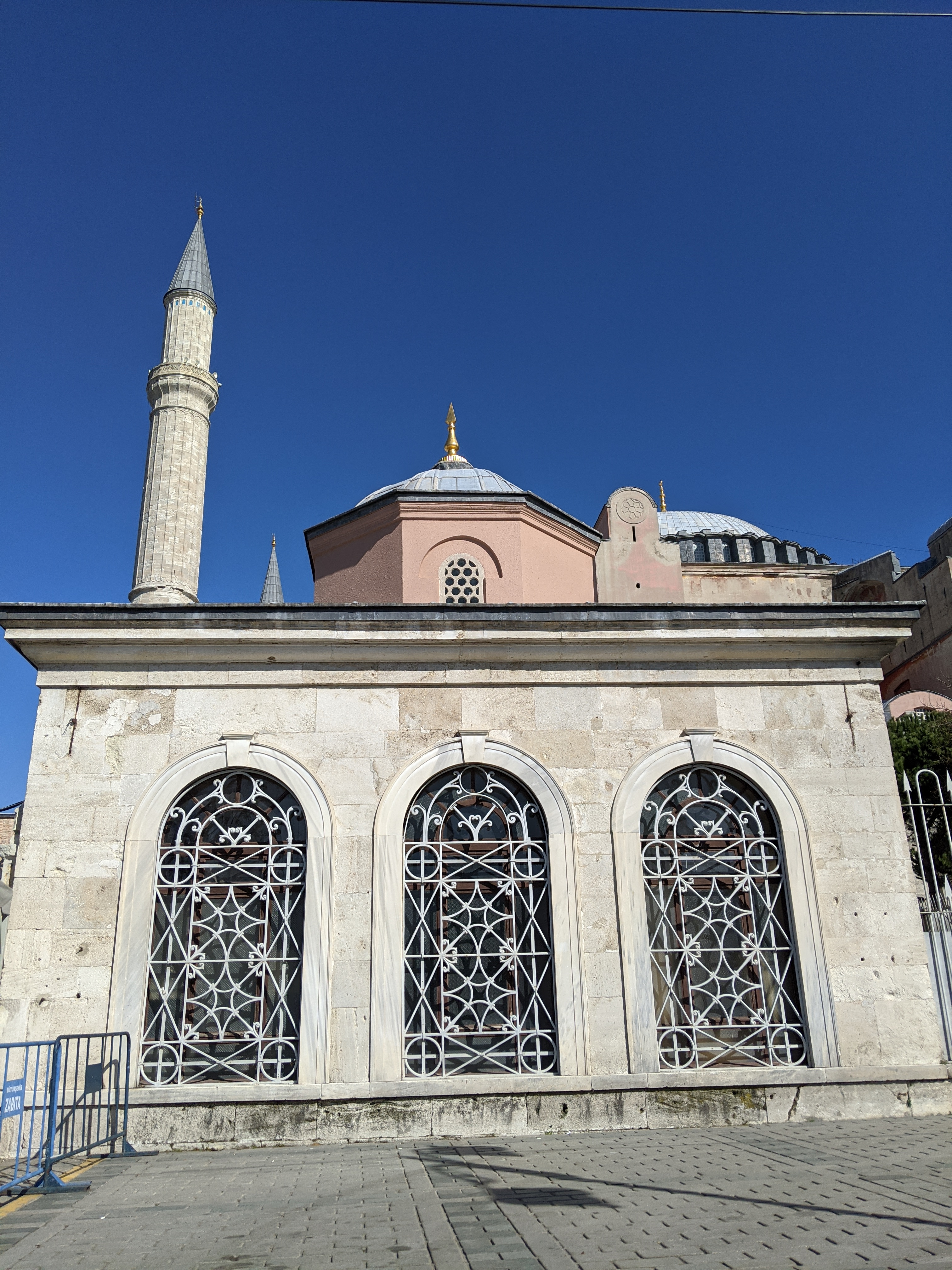 A building called muvakkithane ("prayer timing room") in the Hagia Sophia complex. The dome of the Hagia Sophia main building is visible in background. Hagia Sophia Native nameΑγία ΣοφίαParent institutionHistoric Areas of IstanbulLocationIstanbulCoordinates41° 00′ 30.7″ N, 28° 58′ 47.7″ E Established537Web page control : Q12506 VIAF: 127136890 ISNI: 0000 0001 2153 2741 LCCN: n79058868 GND: 4096339-1 SUDOC: 027416232 WorldCat institution QS:P195,Q12506